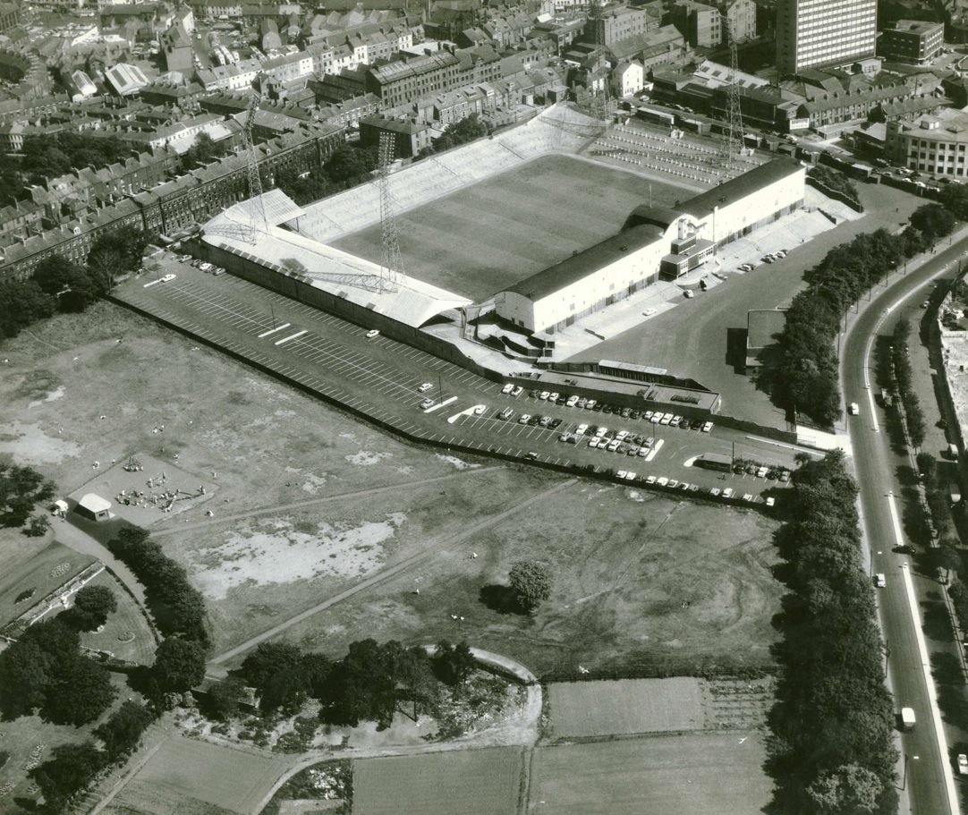 The stadium was urgently in need of development but progress was mired in disputes between the club and the council. You can spot the Strawberry pub behind the Gallowgate terraces. Reference: TWAS: DT.TUR.7.4.36d (Copyright) We're happy for you to share this digital image within the spirit of The Commons. Please cite 'Tyne & Wear Archives & Museums' when reusing. Certain restrictions on high quality reproductions and commercial use of the original physical version apply though; if you're unsure please . To purchase a hi-res copy please quoting the title and reference number